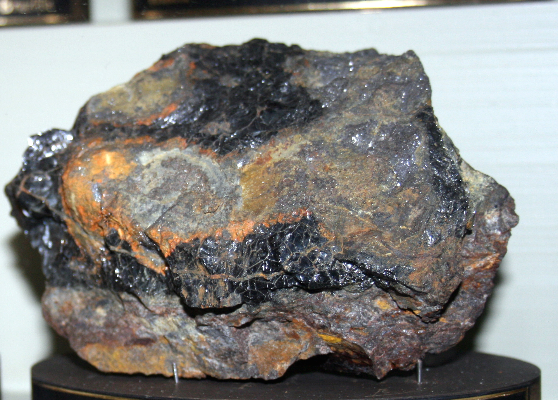 Mineral gummite, chemical composition: mixture of uranium compounds with other impurities, from collection of National Museum, Prague, Czech Republic